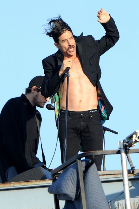 Anthony Kiedis and Josh Klinghoffer (background) on a Red Hot Chili Peppers Concert on the 30th July 2011 in Venice Beach.